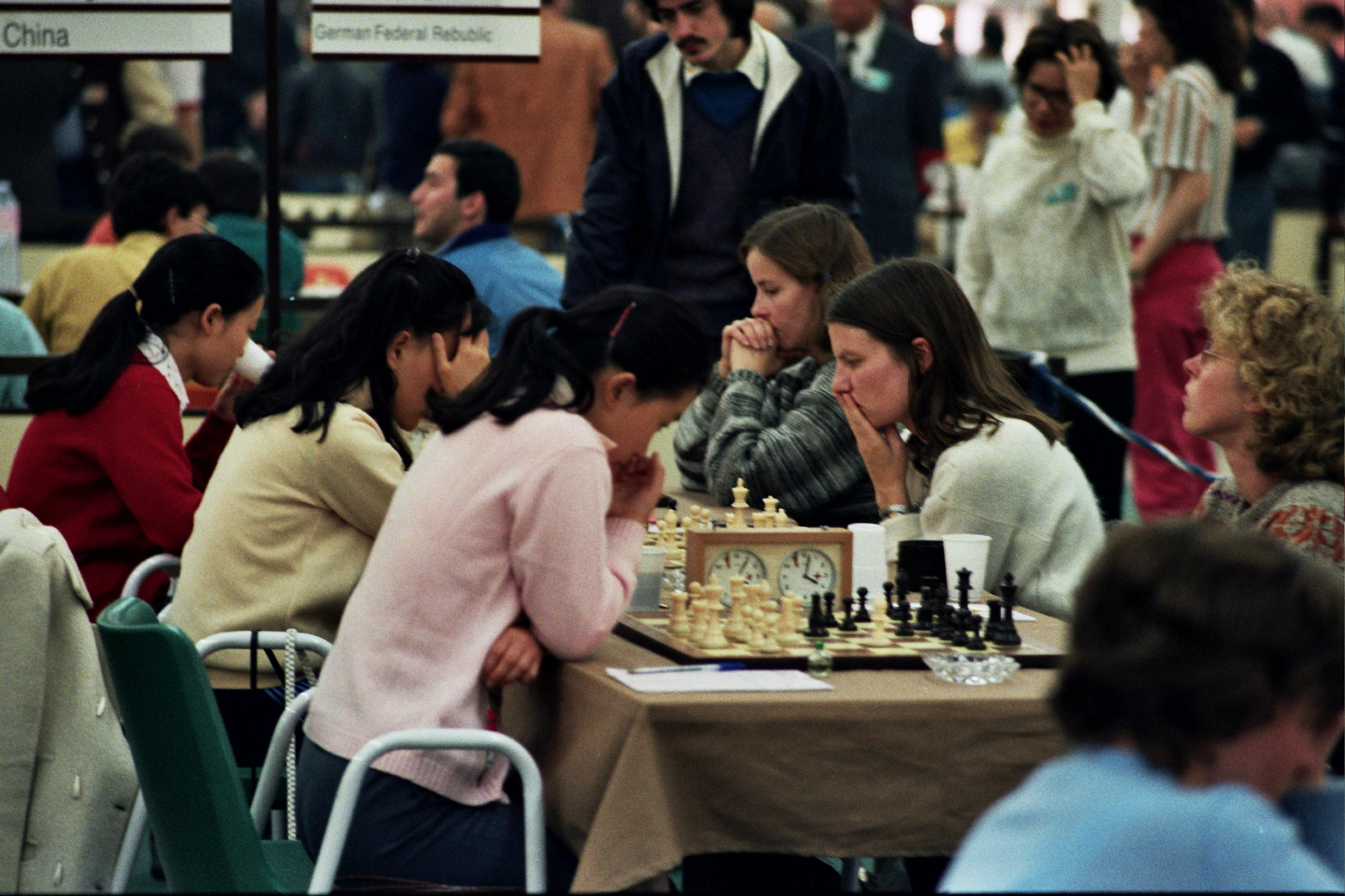 Liu Shilan - Barbara Hund, Wu Mingqian - Gisela Fischdick, An Yangfeng - Petra Feustel, Chess Olympiad 1984 in Thessaloniki, Photographer Gerhard Hund.